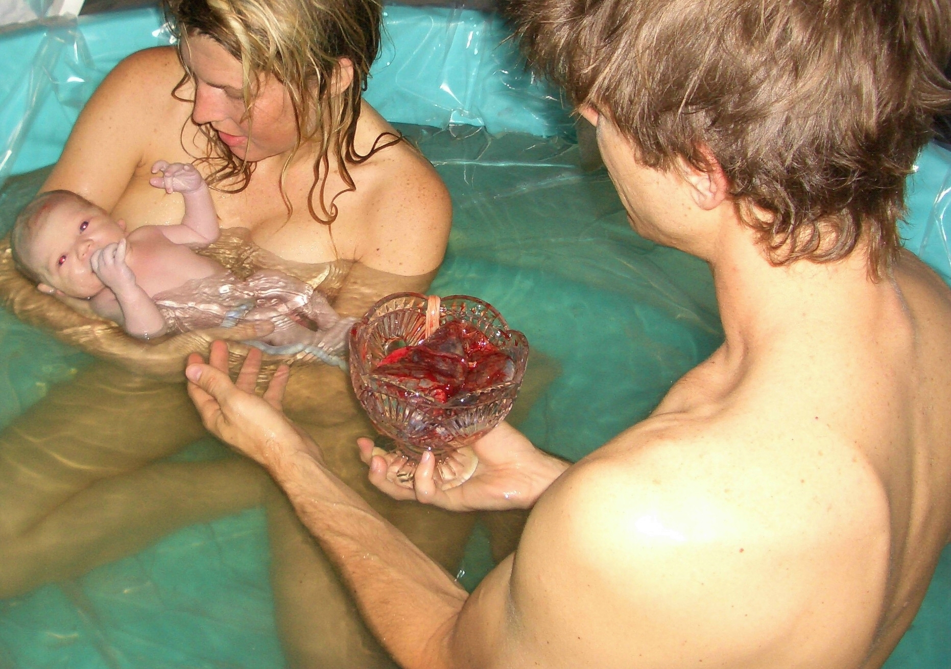 Lotus Birth - Personal photo